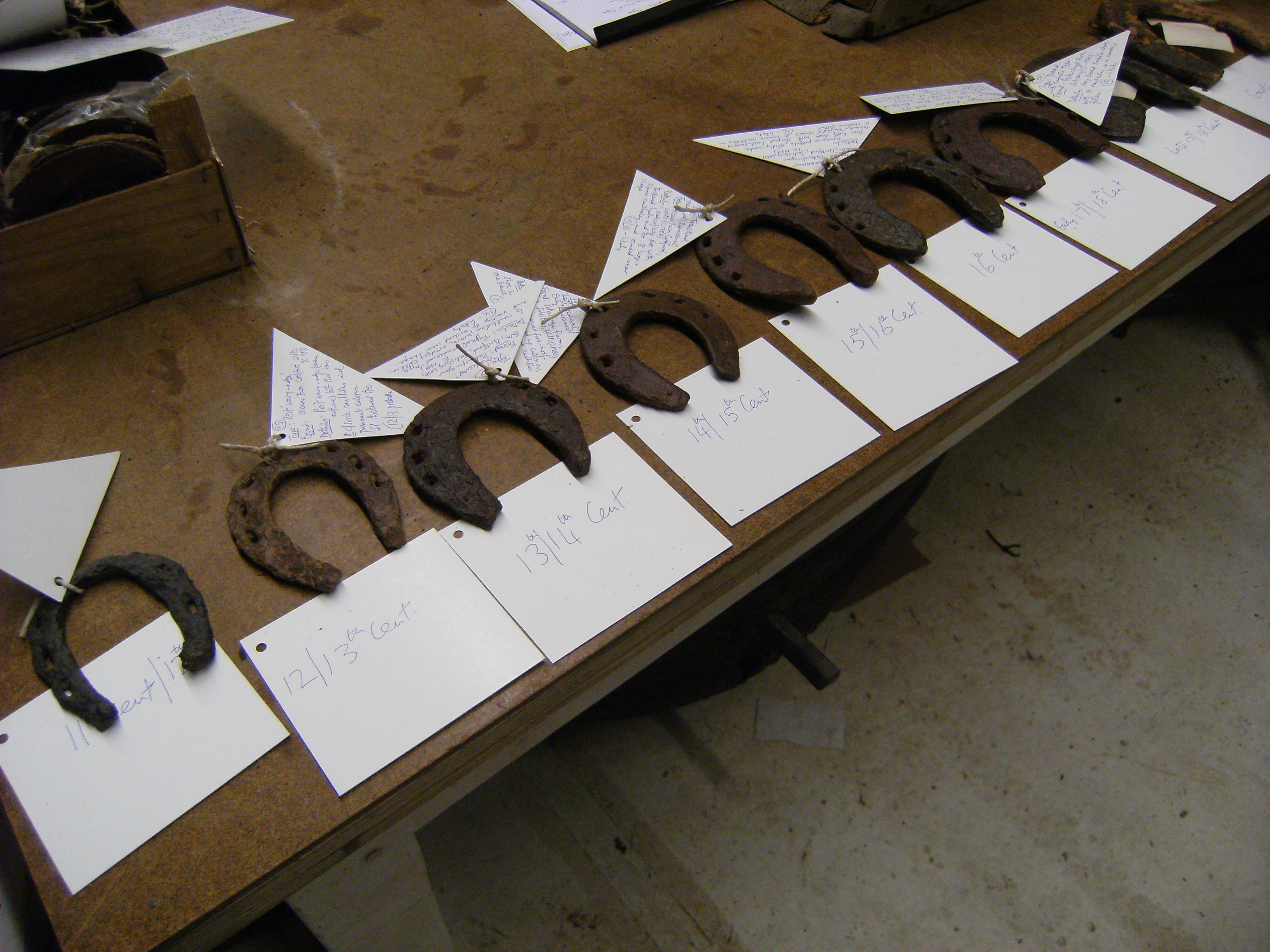 A selection of English horseshoes in the store of the Weald and Downland Museum, dating from the eleventh century to the nineteenth. Note the gradual increase in size.